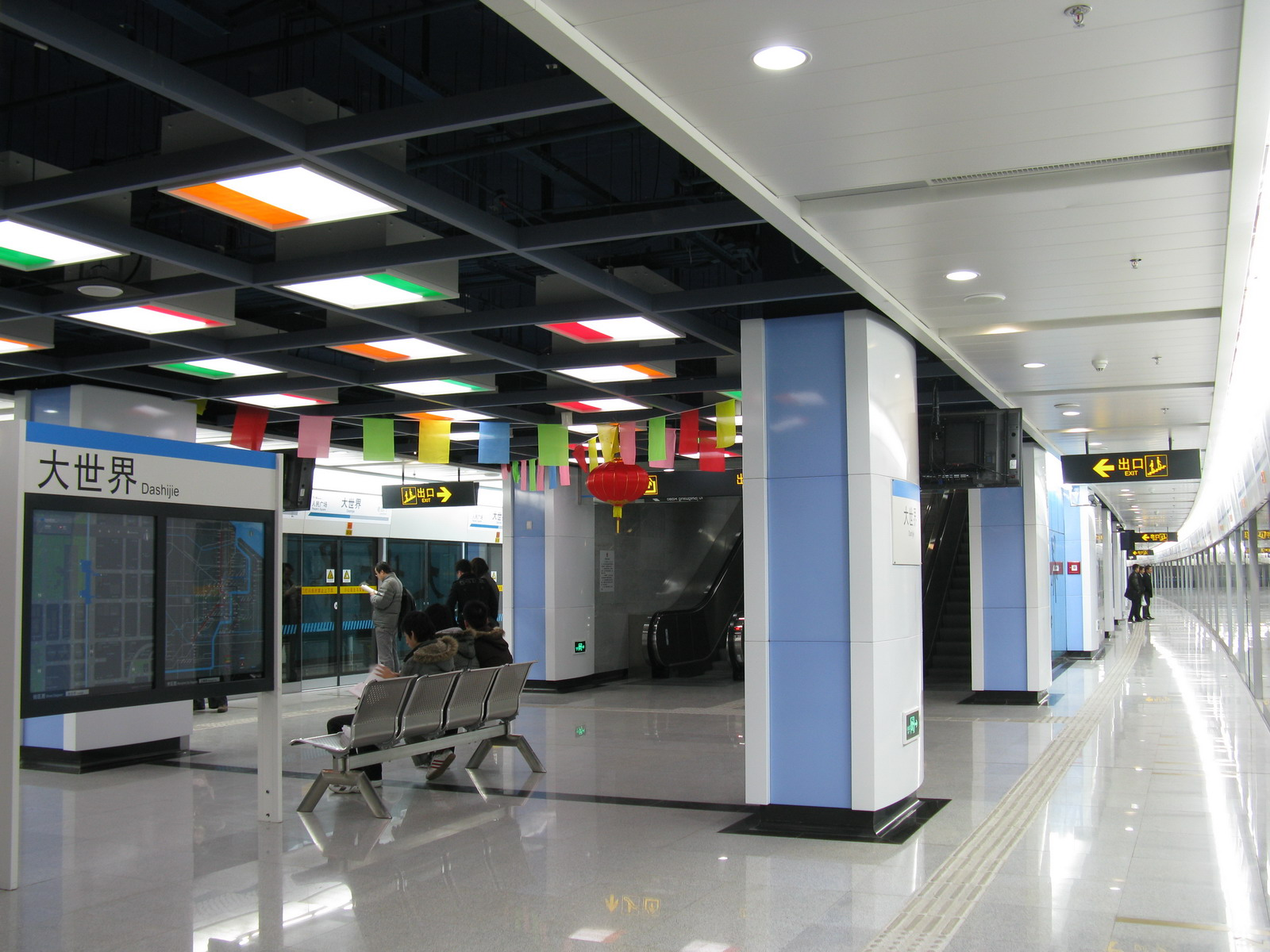 大世界站-8號線月台 Line 8 Platform of Dashijie Station